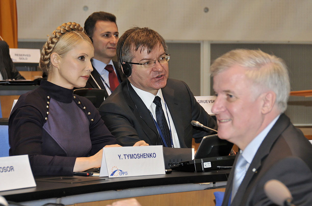 Yulia Tymoshenko, Hryhoriy Nemyria (front row), Nikola Gruevski (behind) and Horst Seehofer (right) at the European People's Party Congress in Bonn (Germany), 2009.